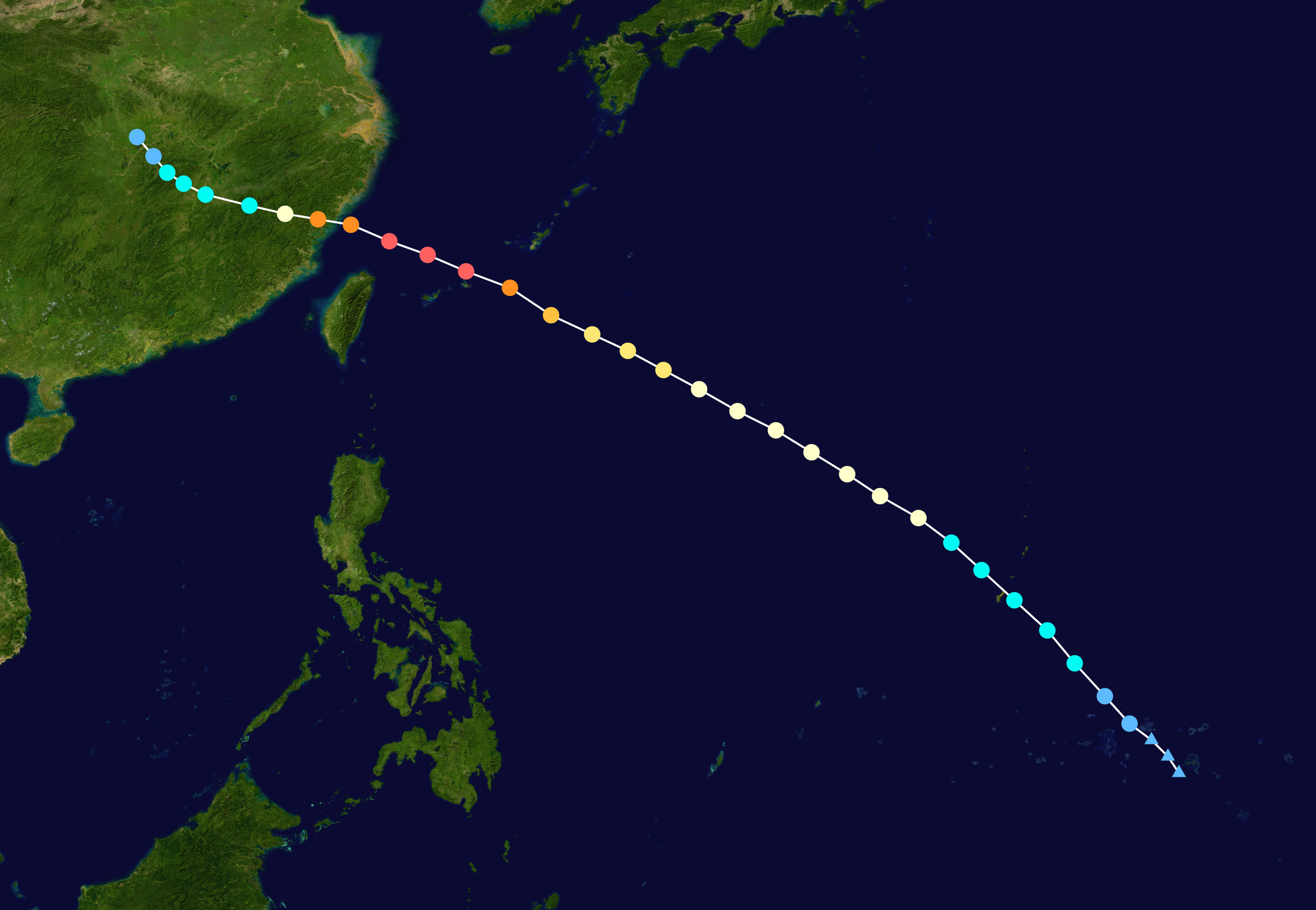 Typhoon Saomai (2006) track. Uses the color scheme from the Saffir-Simpson Hurricane Scale.